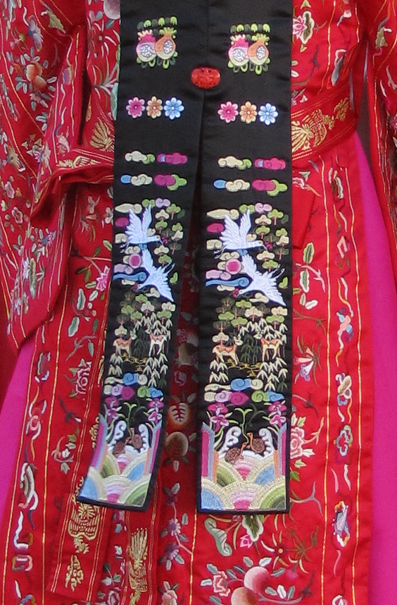 Korean embroidery patterns.